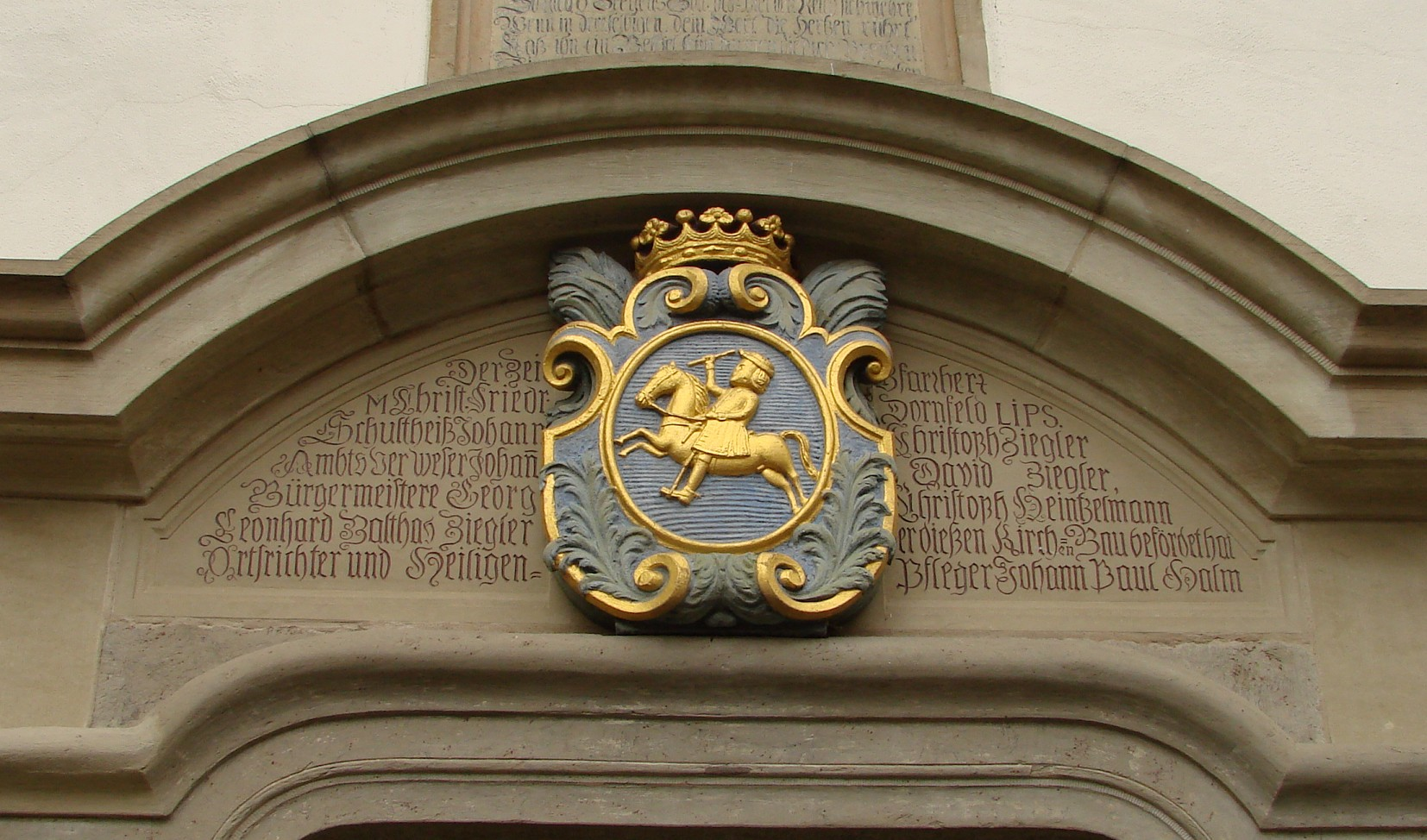 Oberstenfeld, Germany. Old community crest above a church gate (Fleckenkirche = Dorfkirche St. Gallus)